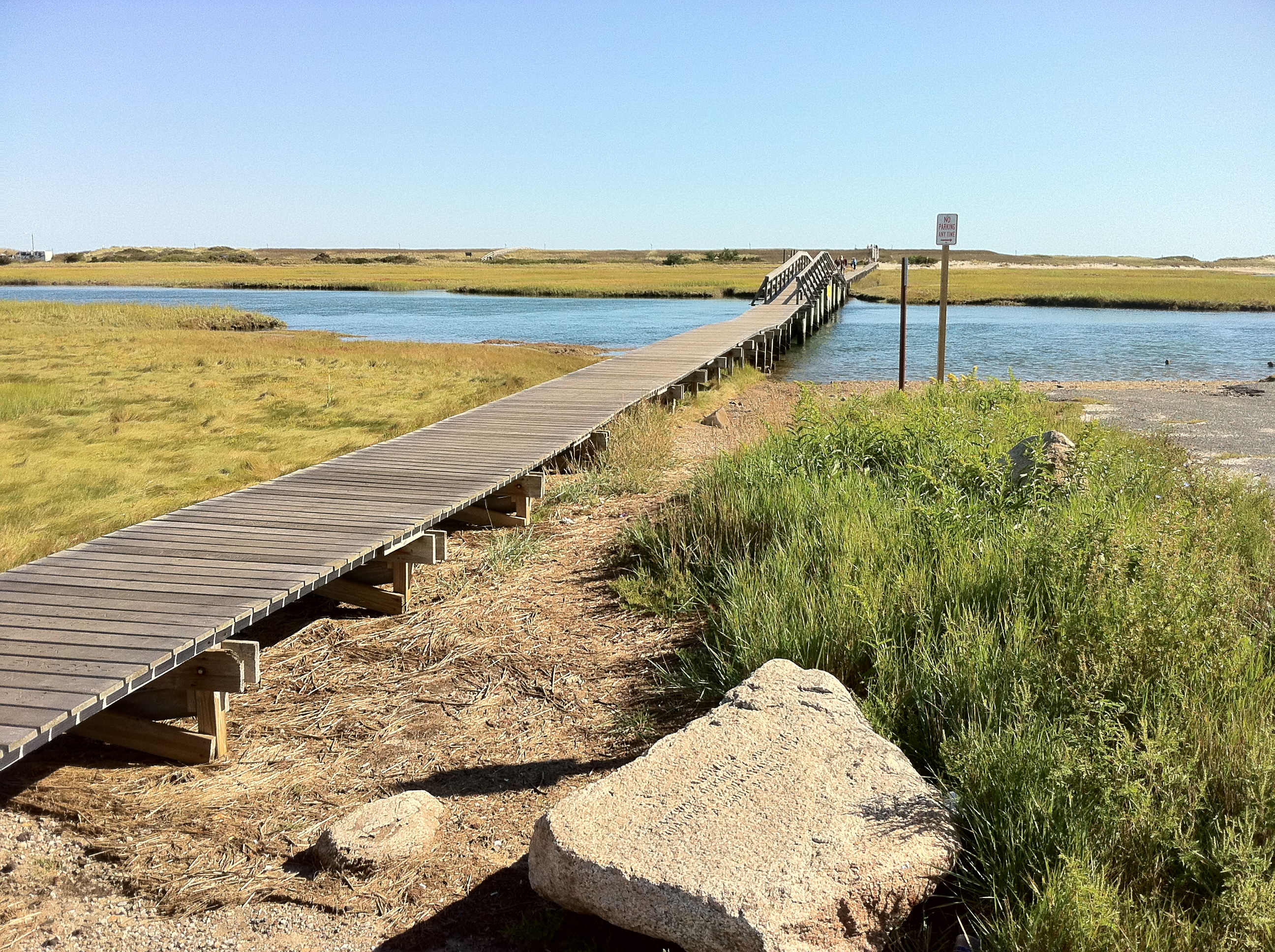 Boardwalk at Sandwich, Massachusetts